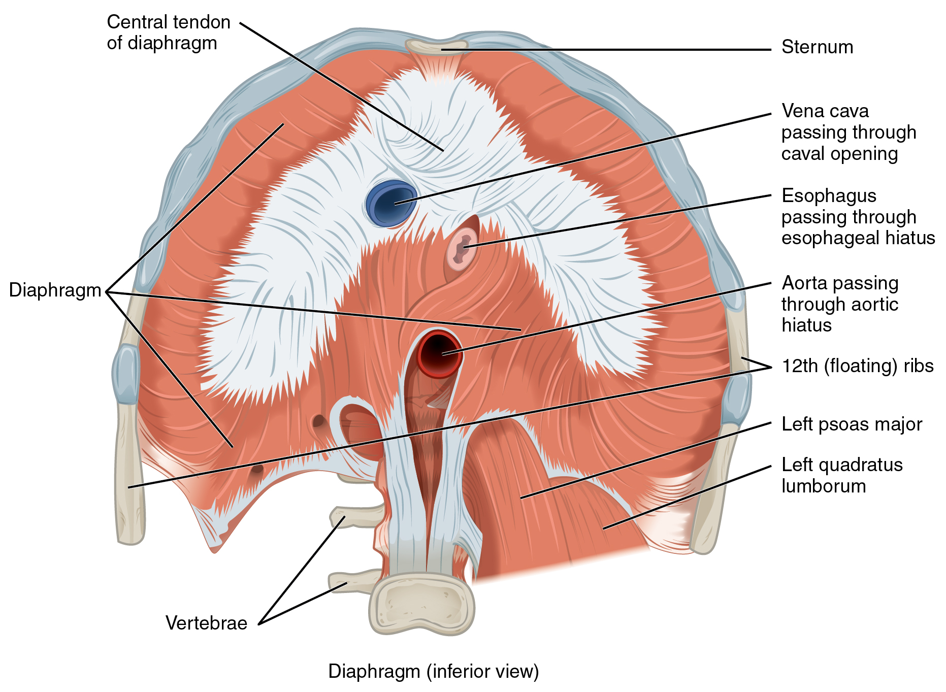 Version 8.25 from the Textbook OpenStax Anatomy and Physiology Published May 18, 2016